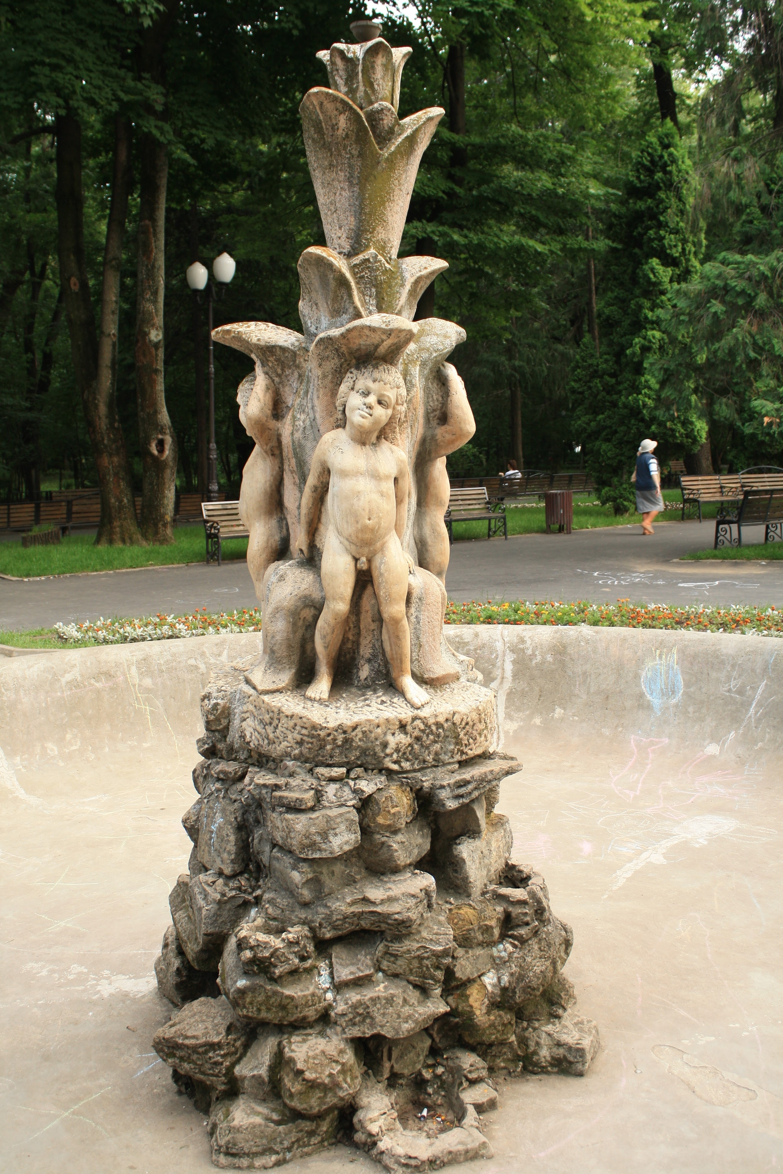 Parcul Copou (fântână cu statuete de marmură)